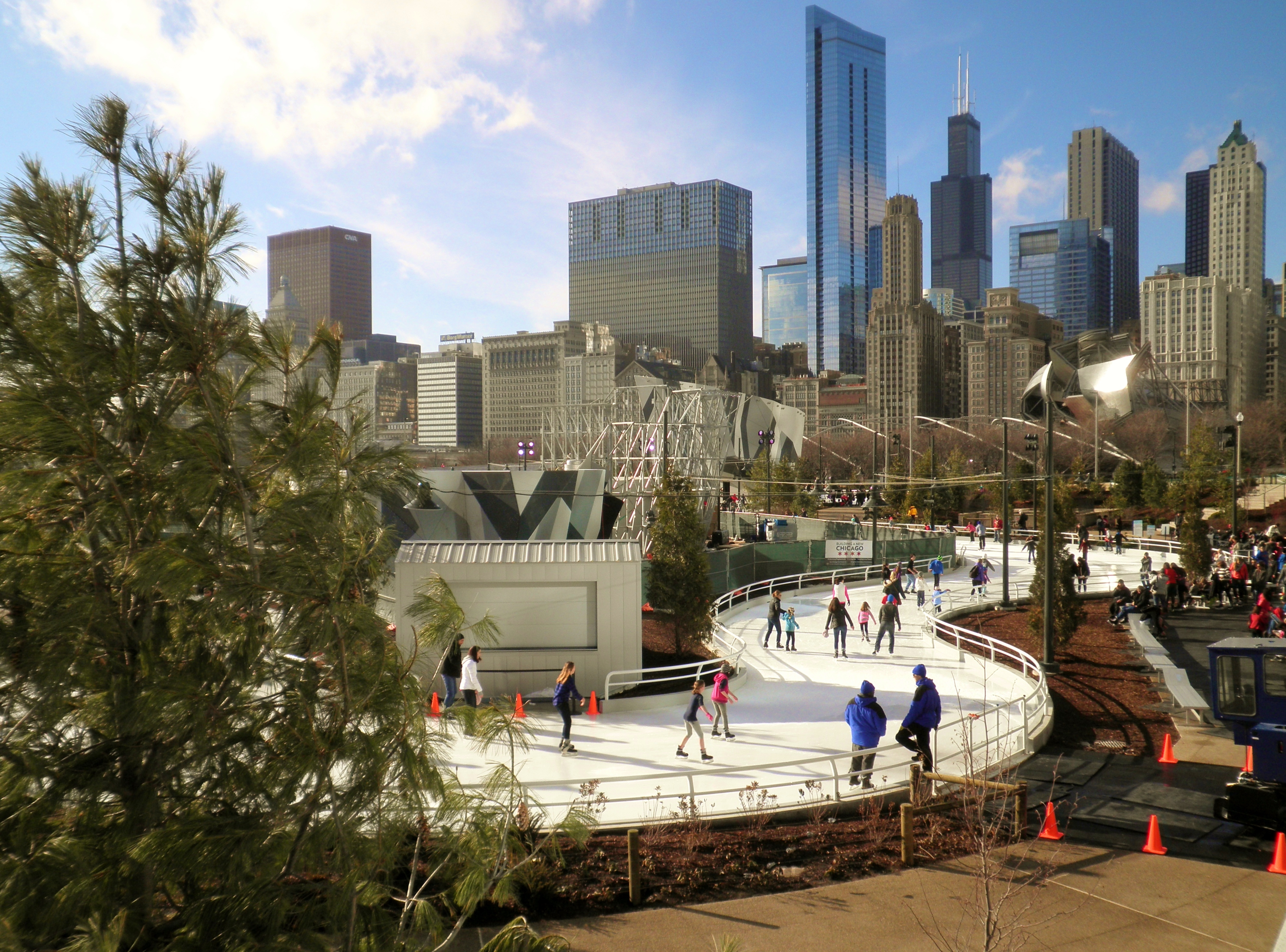 Maggie Daley Park is a re-landscaped section on northern Grant Park in Chicago. Constructed from 2012 to 2015, its initial opening was in December, 2014. Architect: Michael Van Valkenbergh